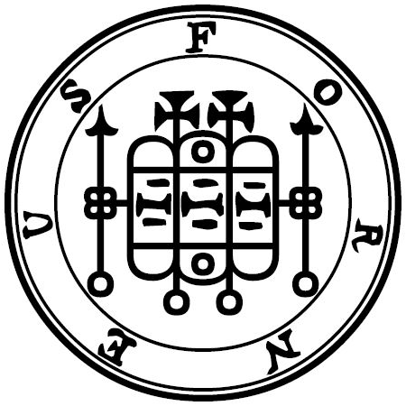 Forneus seal, THE BOOK OF THE GOETIA OF SOLOMON THE KING (1904)